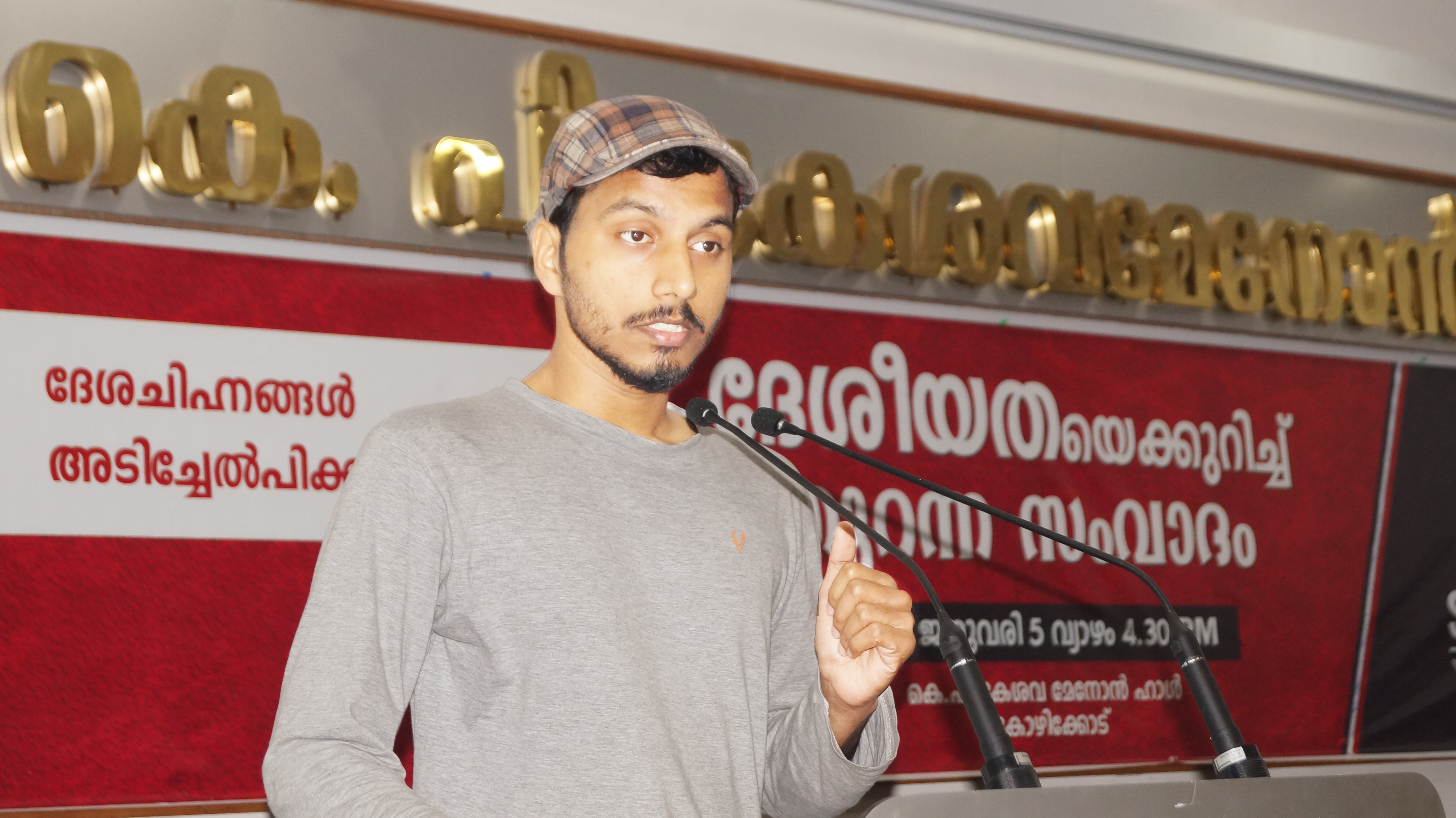 Zainul Abideen in a public program